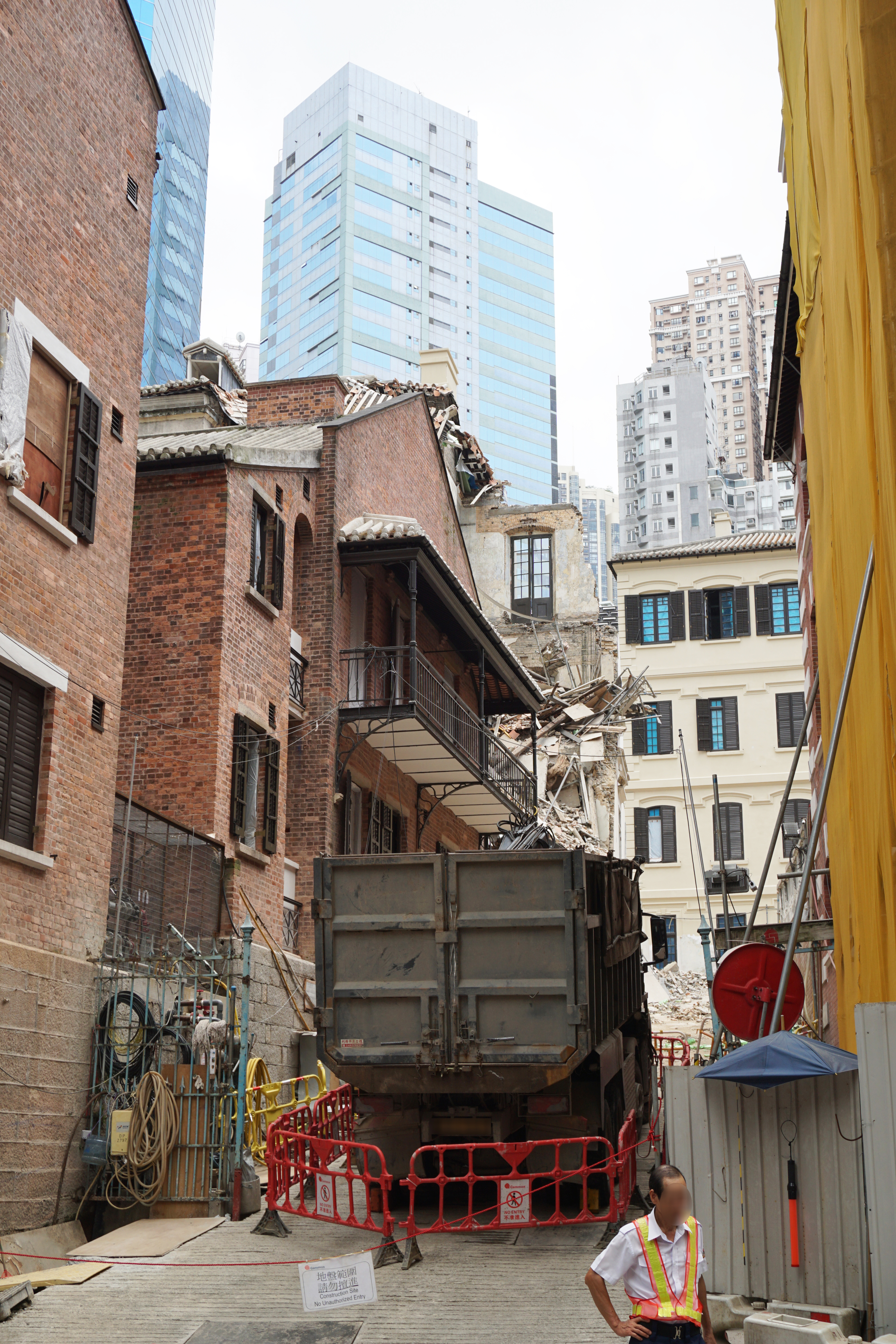 Former police station in Central, Hong Kong.